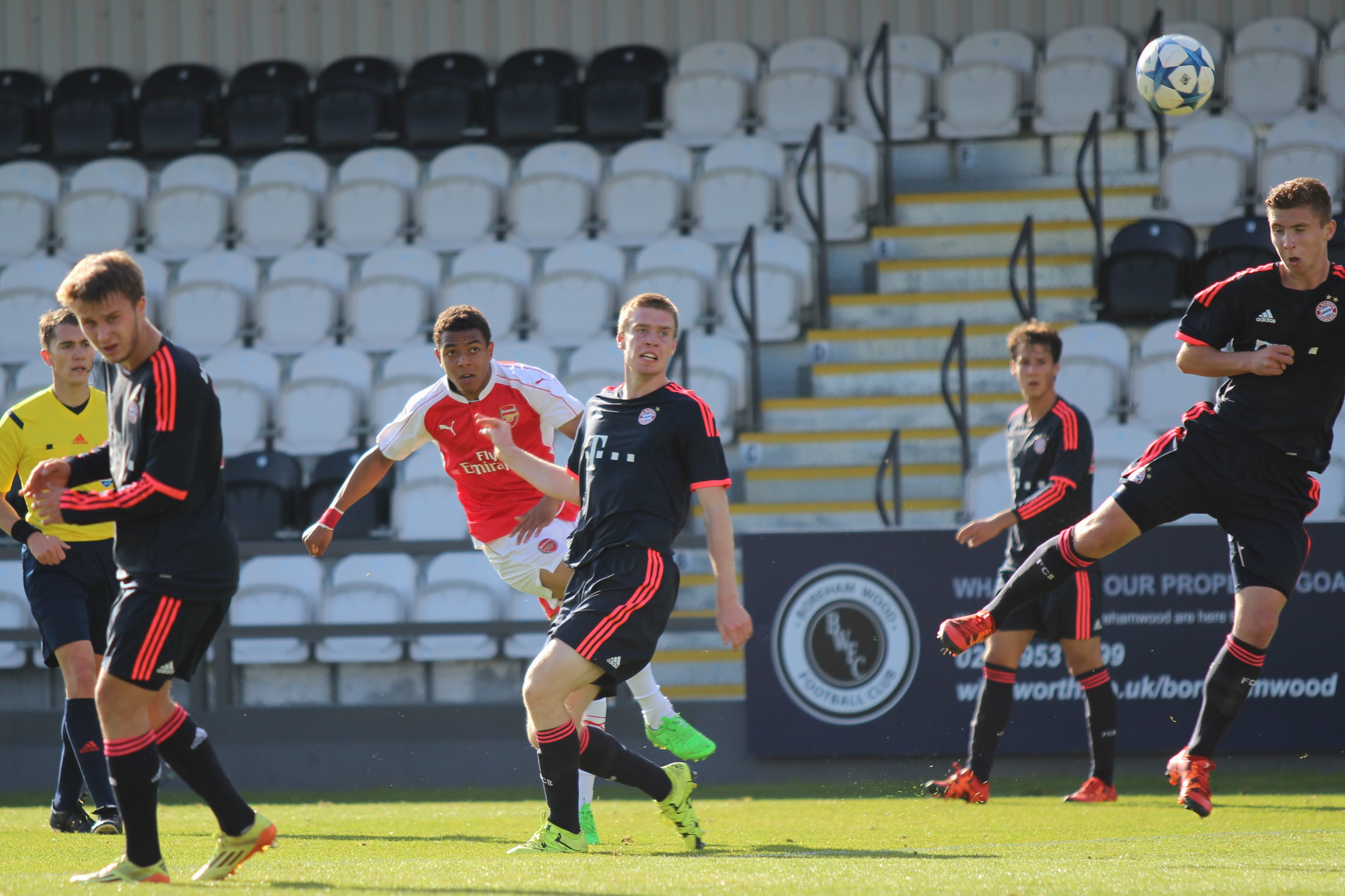 Donyell Malen